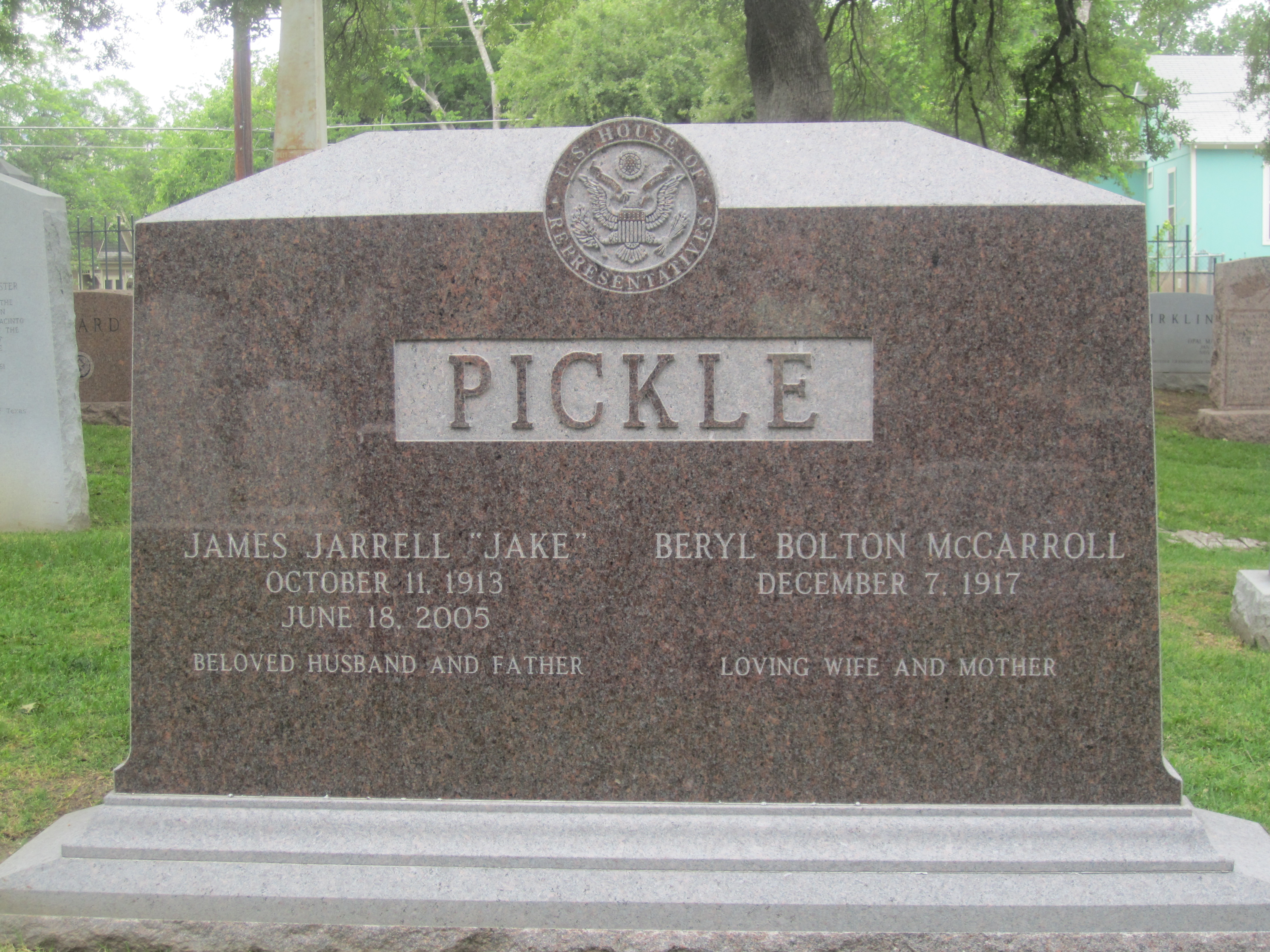 I took photo of Jake Pickle grave at Texas State Cemetery in Austin with Canon camera.